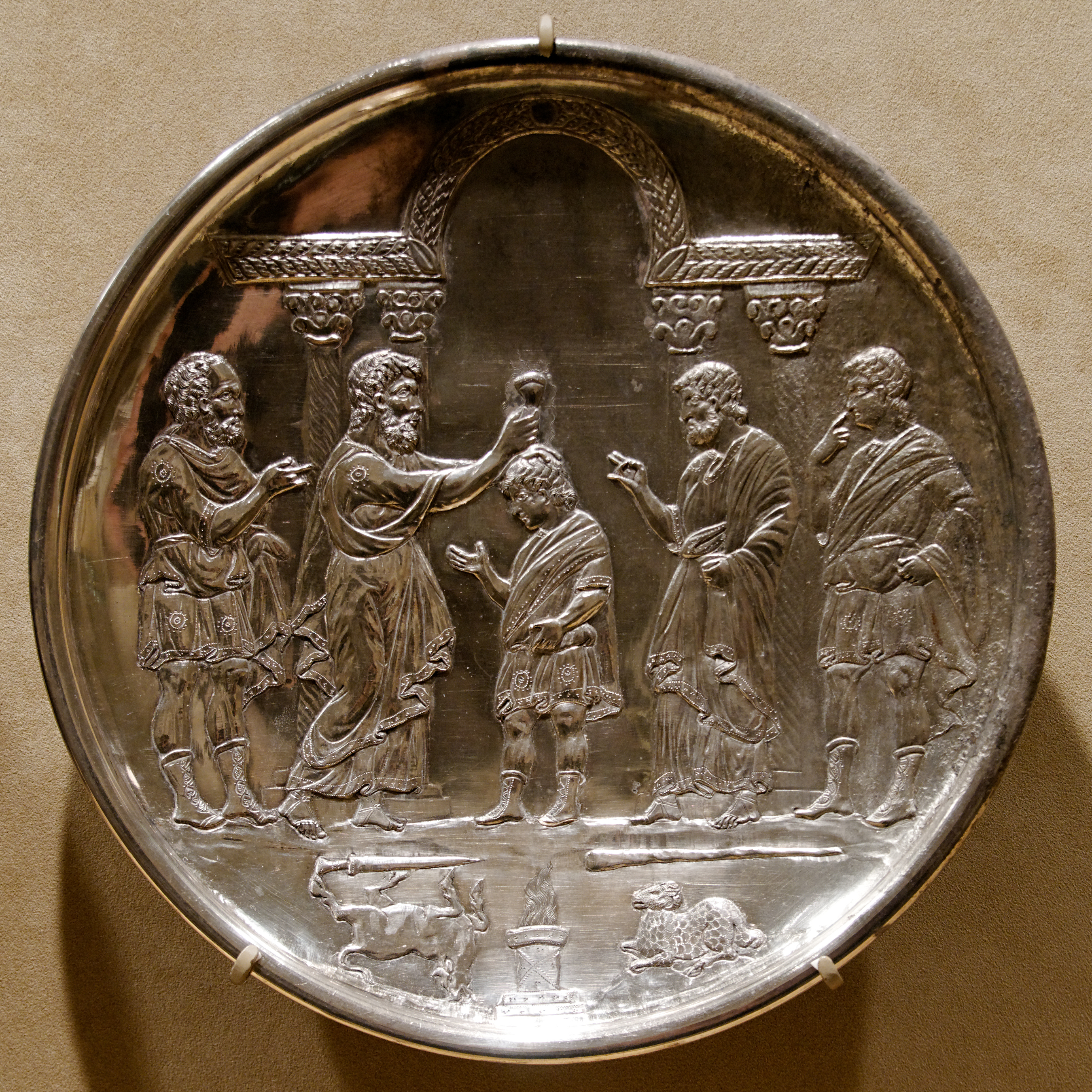 Samuel anointing David. One of six silver plates depicting early scenes of the life of David. Constantinople, c. 629-30, Metropolitan Museum of Art, accession 17.190.399 When Byzantine emperor Heraclius defeated Persian general Rhahzadh, Frankish writer Fredegar referred to Heraclius as someone who "advanced to the battle like a second David". This series of plates may be a reference to that